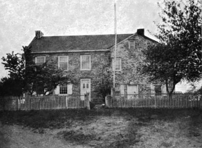 Home of David Rittenhouse, astronomer, as it appeared circa 1919